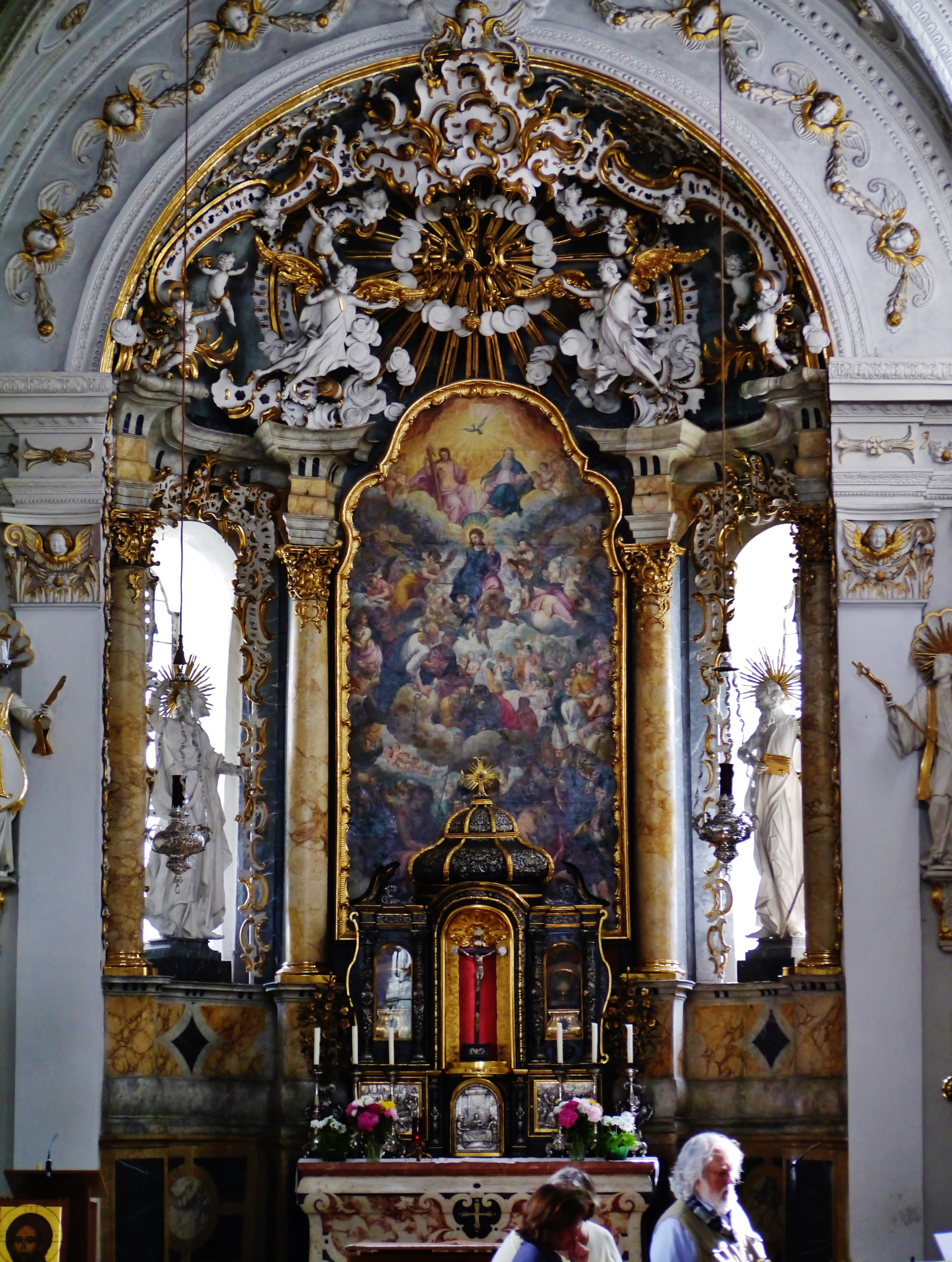 High Altar of the Jesuit Church of All Saints, Hall in Tirol, Tyrol, Austria